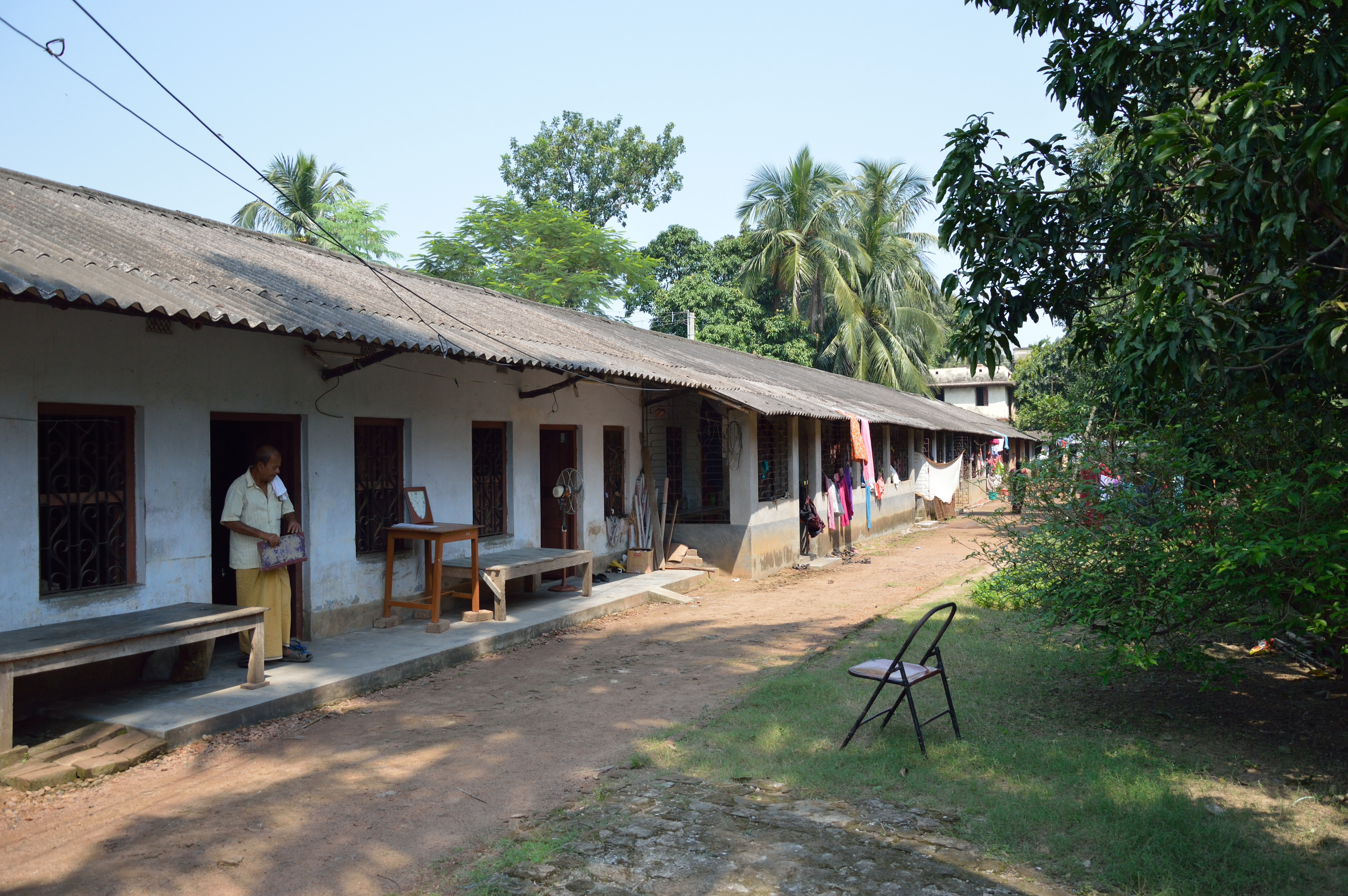 Photographed during the free distribution of clothes to all the residents of the 'Janasiksha Prochar Kendra' - a Social Care Home by the NGO - 'Nisana Foundation for Sports Health and Social Development' before Durga Puja at Baganda field station in Hooghly.